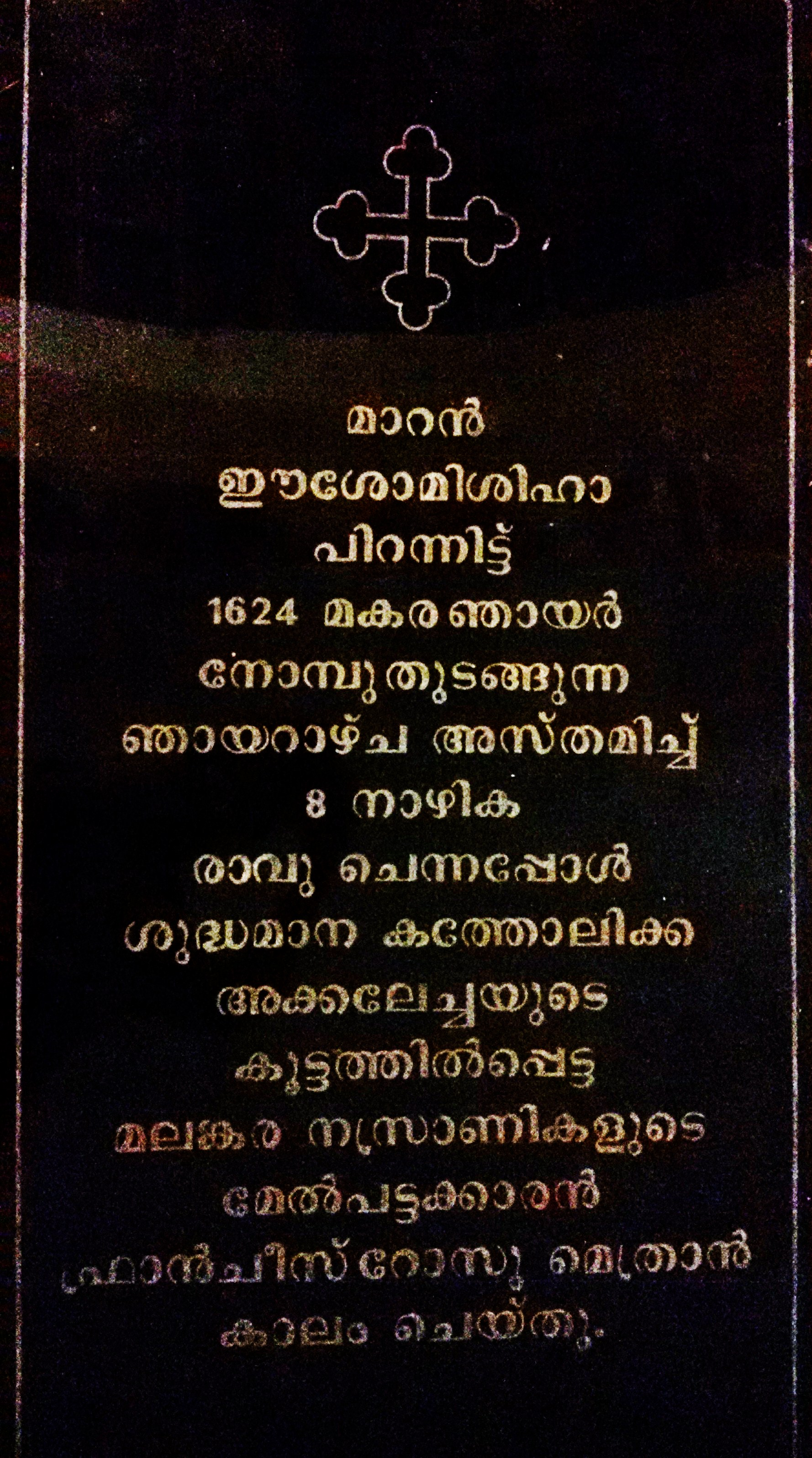 The monument reproduced the wordings of the epitaph discovered in the church of North Paravur in 18th century.